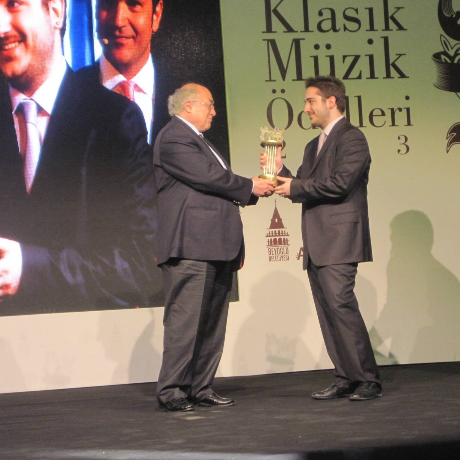 Tanman recieving his "Young Musician of The Year-2013" award - Donizetti Classical Music Awards, 2013